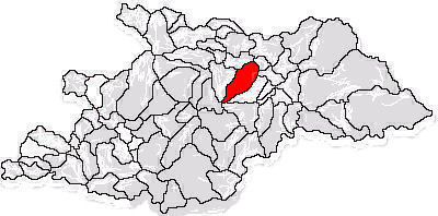 Map of Strâmtura commune in Maramures County